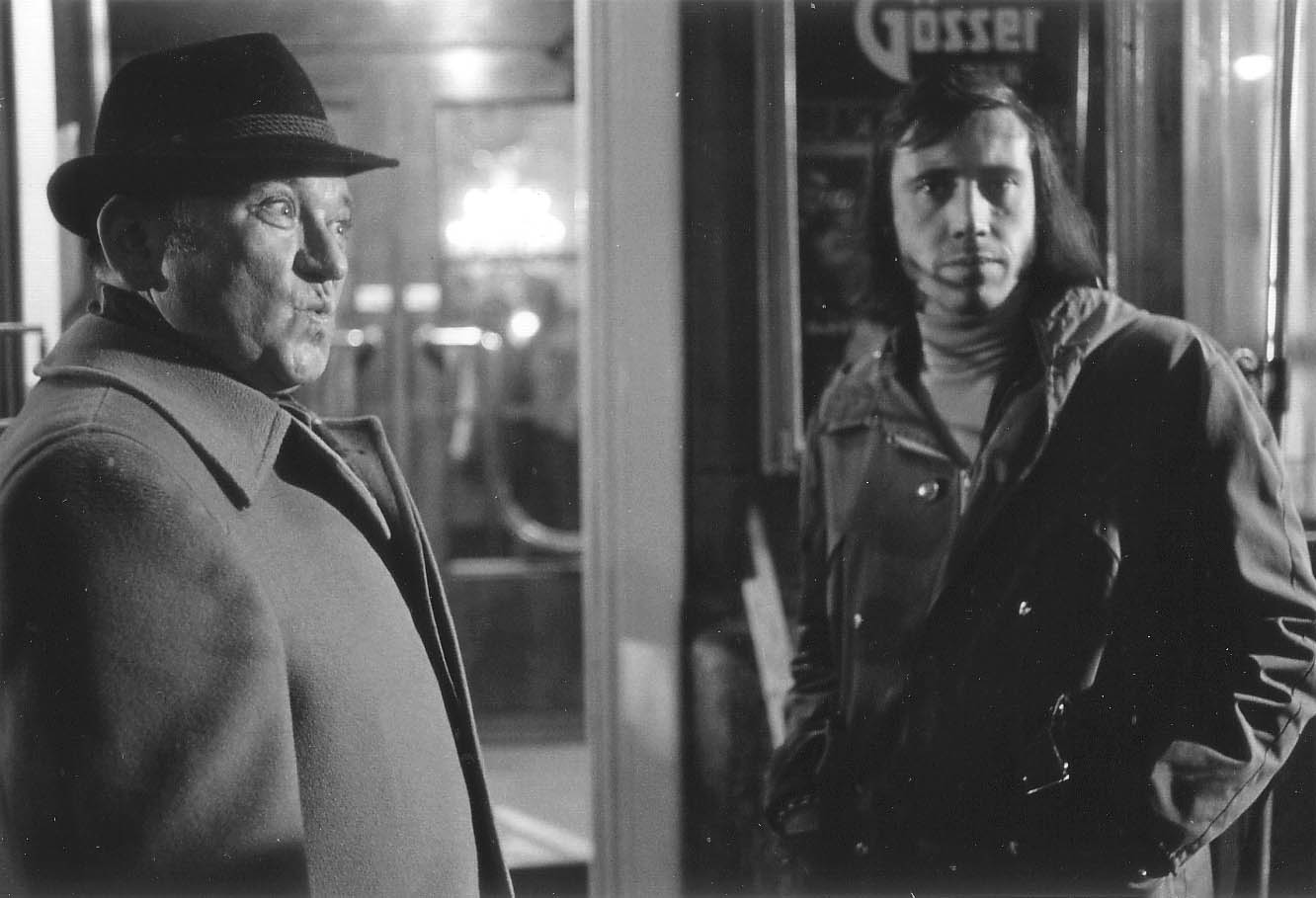 Austrian actor Fritz Muliar, arriving for a shooting for German TV-series 'Der Kommissar' (episode 'Das goldene Pflaster'), and being in quite a fine mood, joking as he almost always did. I think I remember that the person facing the camera played one of the killers, or even the killer. Vienna, mid-1970s. Nikon 35mm lens, avaílable light, open aperture. The photographer was less than welcome on the 'set', but could not immediately be kicked off either, as the shooting took place in a café open to anybody, at this time ;)) The photographer passed by this scene 'just by chance', when walking back home after having a dinner with friends.